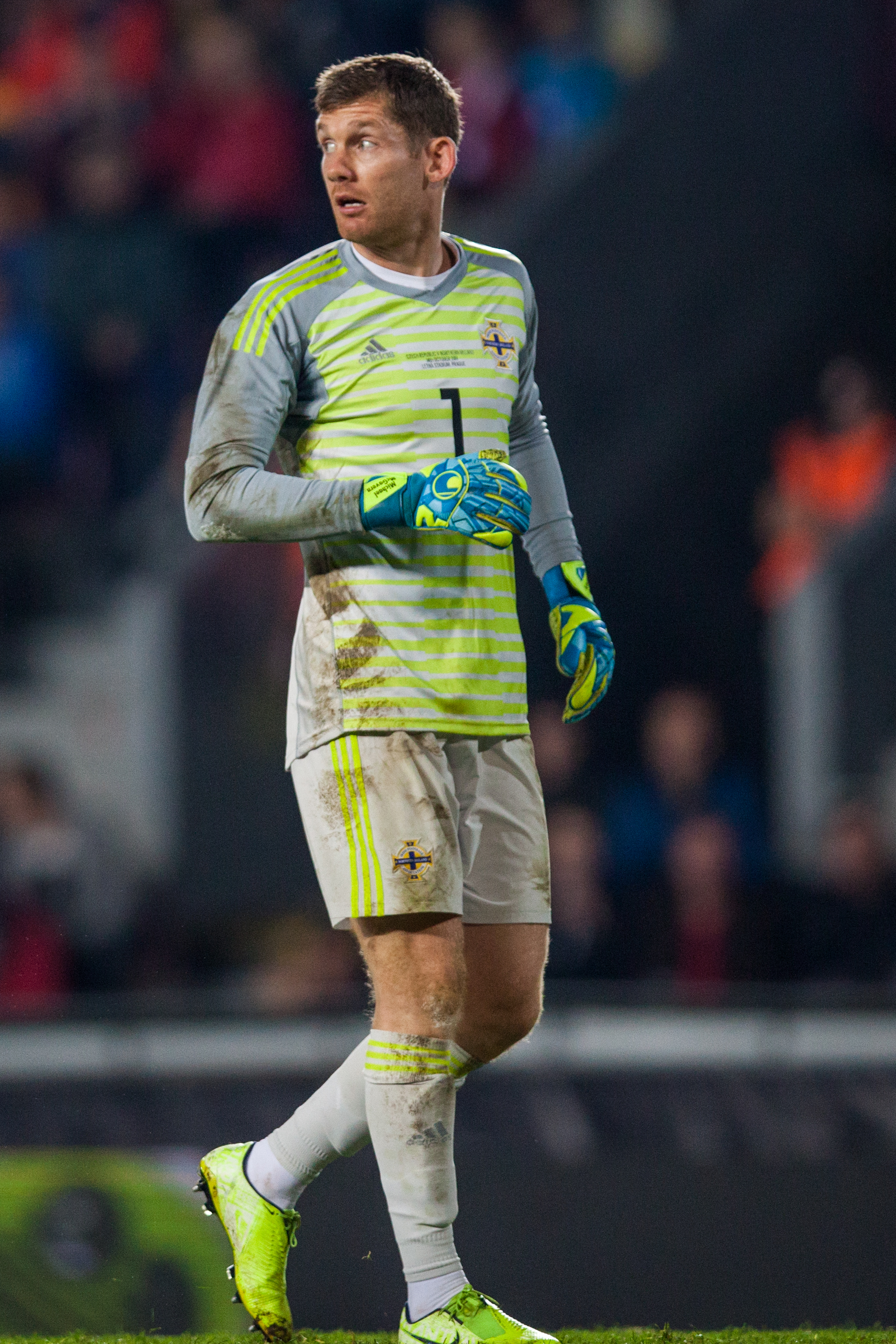 Michael McGovern in an international friendly match between Czech Republic and Northern Ireland (2:3), Stadion Letná (Prague) 2019-10-14 The making of this work was supported by Wikimedia Austria. For other files made with the support of Wikimedia Austria, please see the category Supported by Wikimedia Österreich. Personality rights warningAlthough this work is freely licensed or in the public domain, the person(s) shown may have rights that legally restrict certain re-uses unless those depicted consent to such uses. In these cases, a model release or other evidence of consent could protect you from infringement claims.